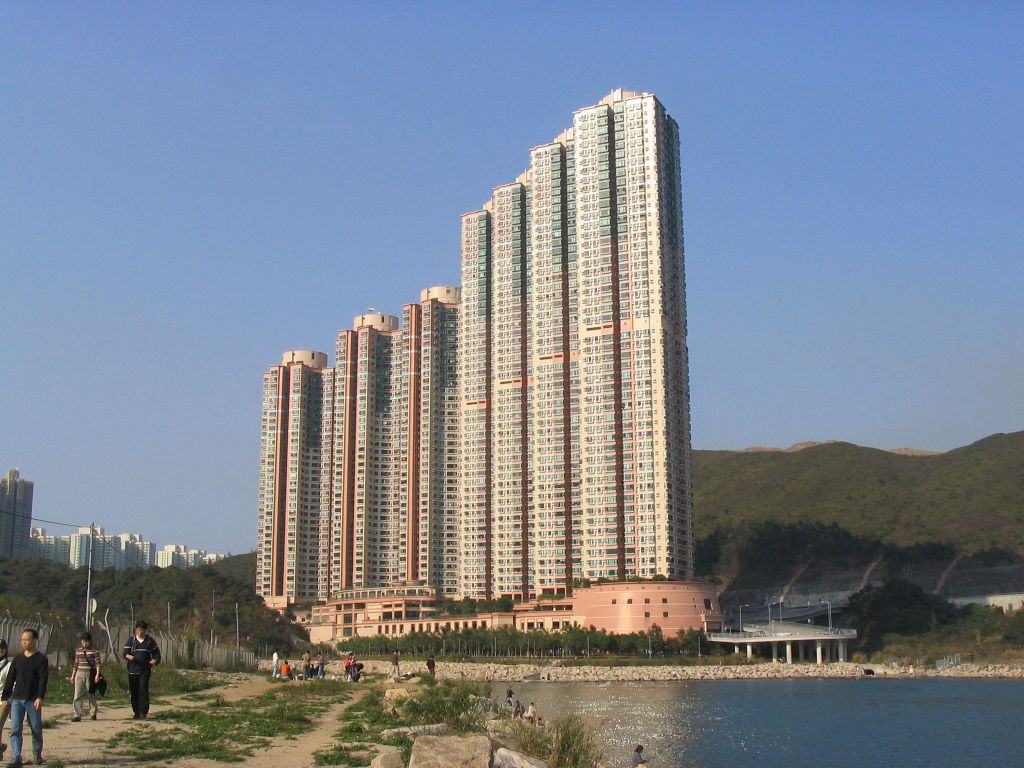 清水灣半島(住宅) Oscar By The Sea